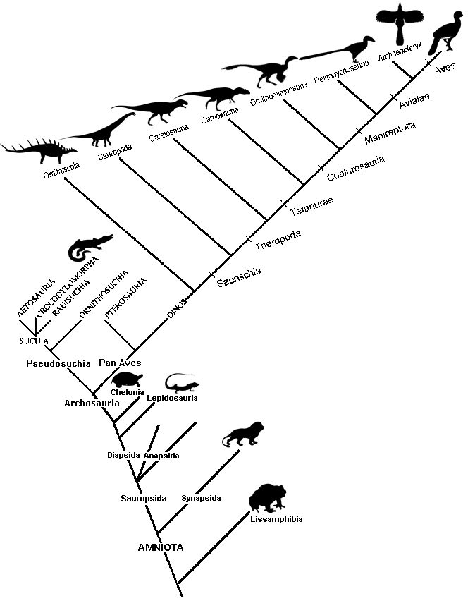 Cladogram of amniotes. Based on File:Cladogram Amniota A.jpg